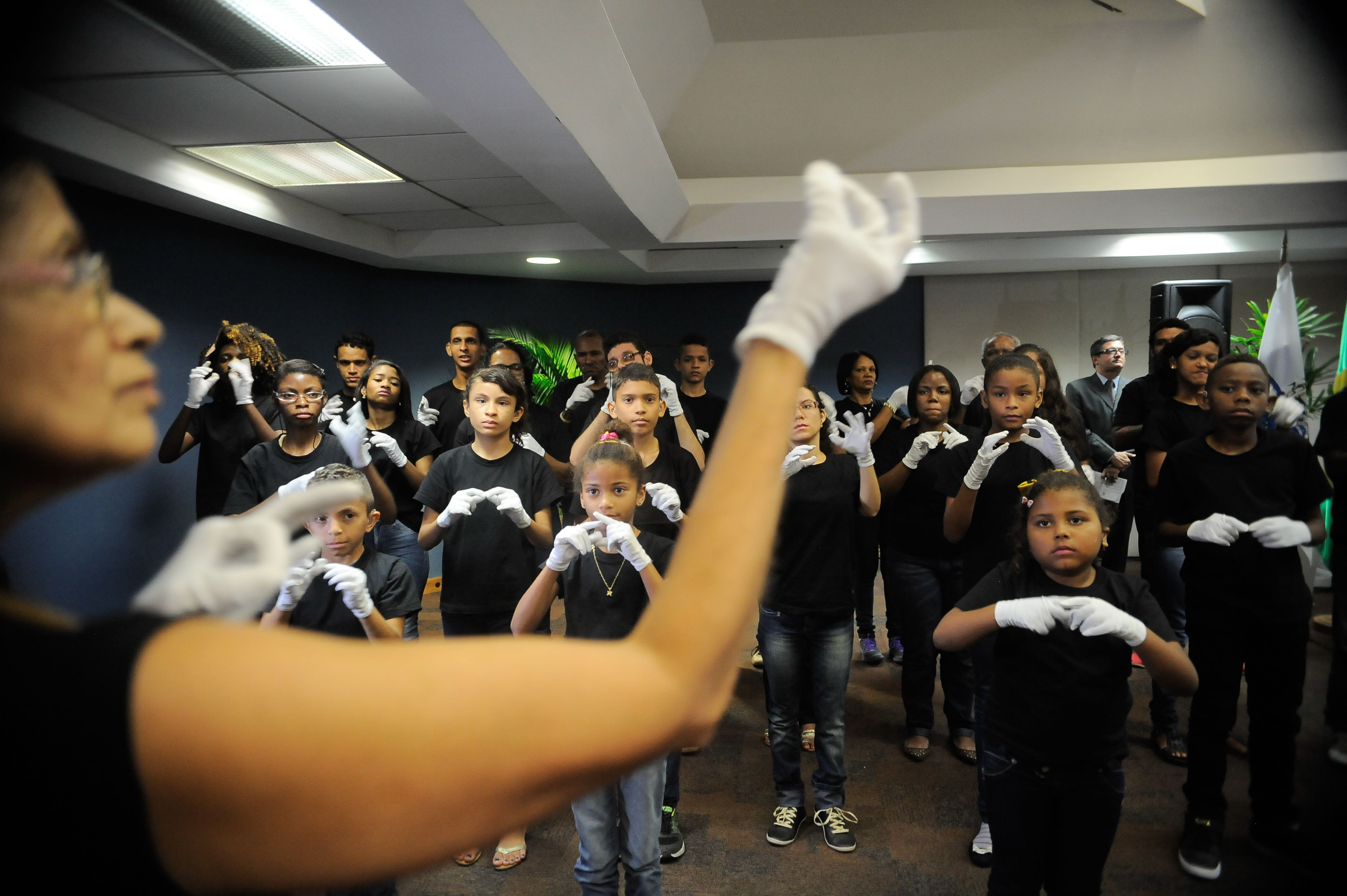 Photo by Tânia Rêgo/Agência Brasil CCBY3.0